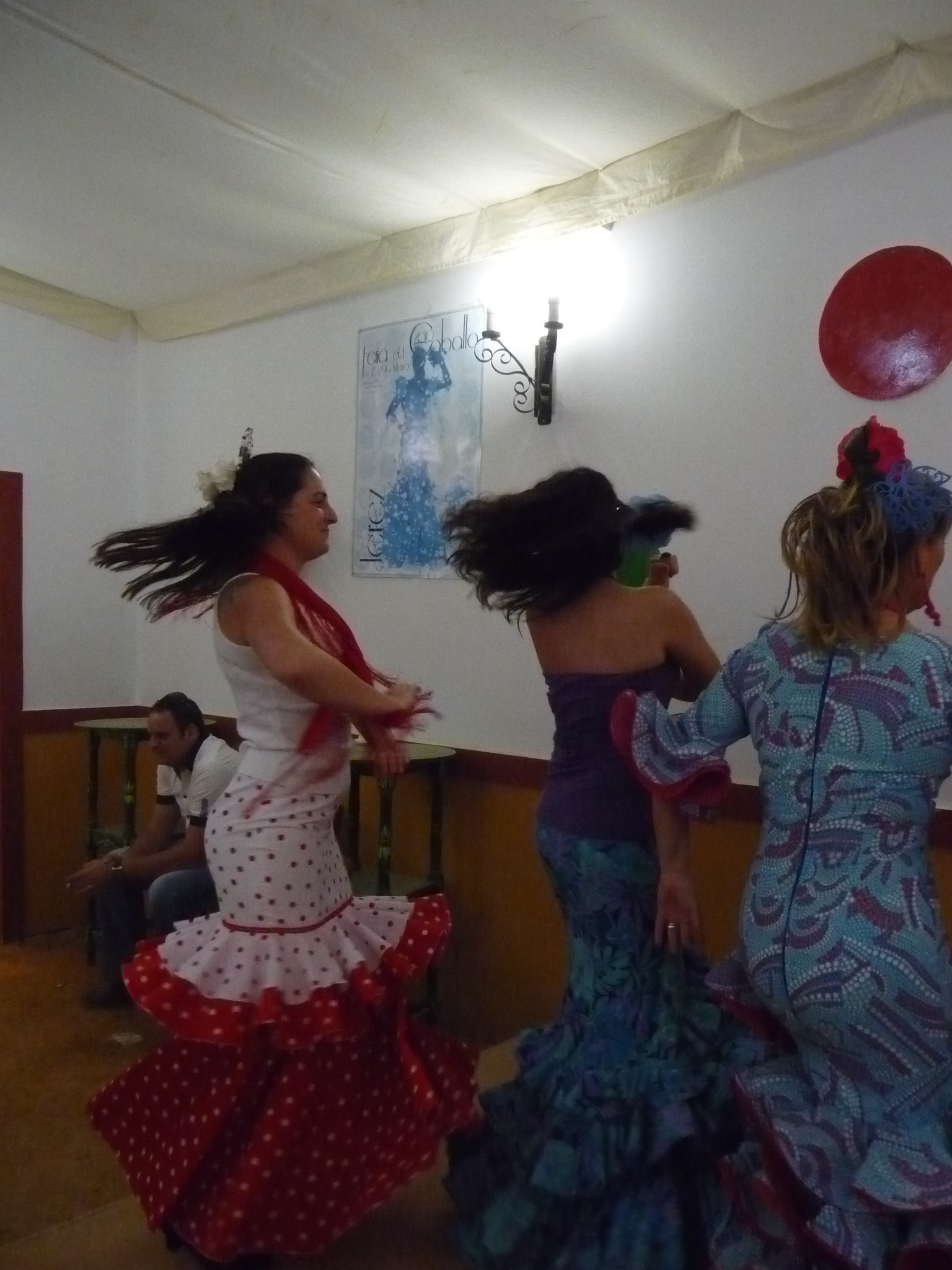 Feria of Jerez 2010